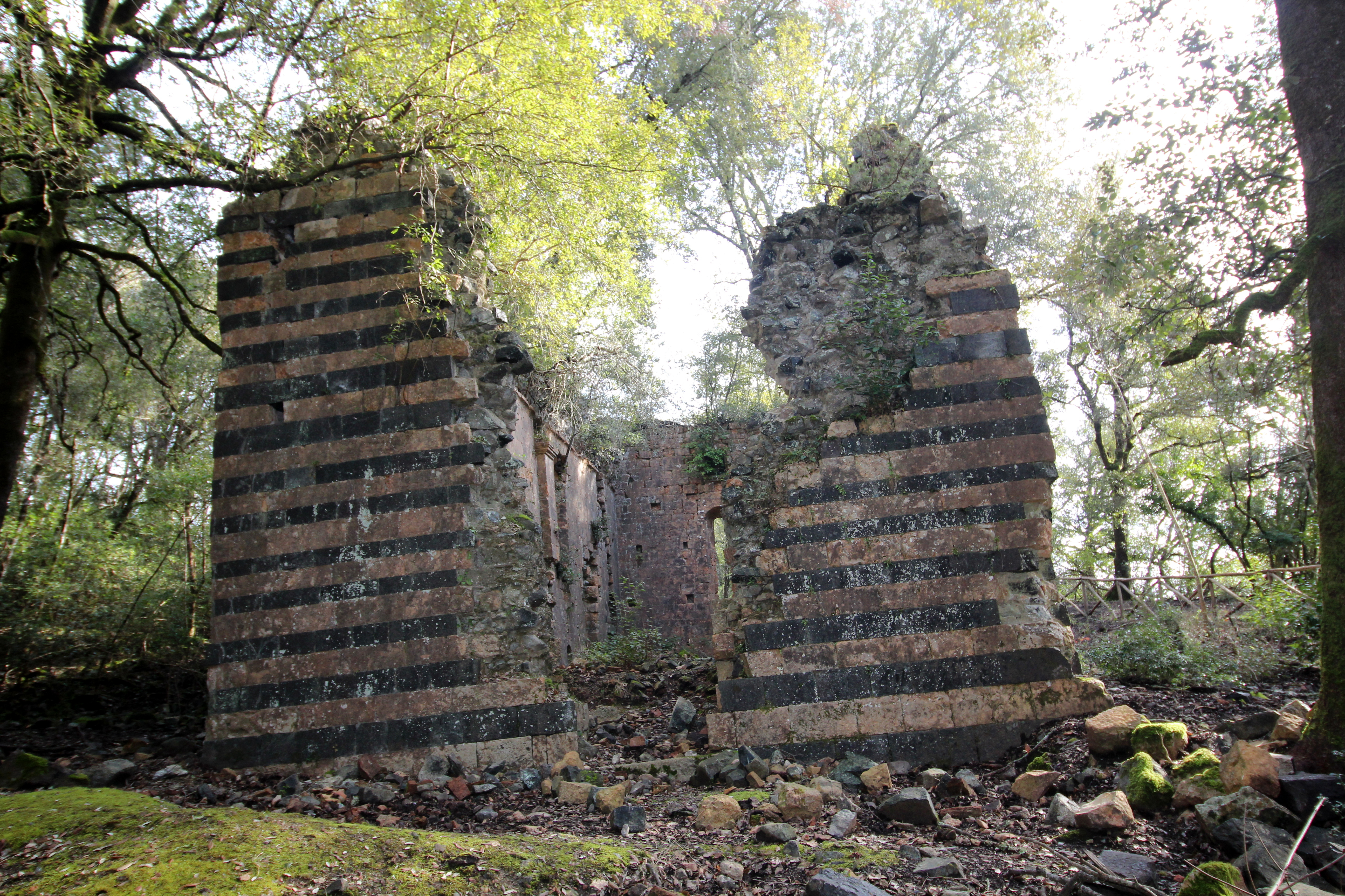 Church Ruin of Santa Maria di Montespecchio (Monte Specchio), build ca. 1192, Order of Saint Augustine, abandoned in the 17th century, in the territory of Murlo, Province of Siena, Tuscany, Italy